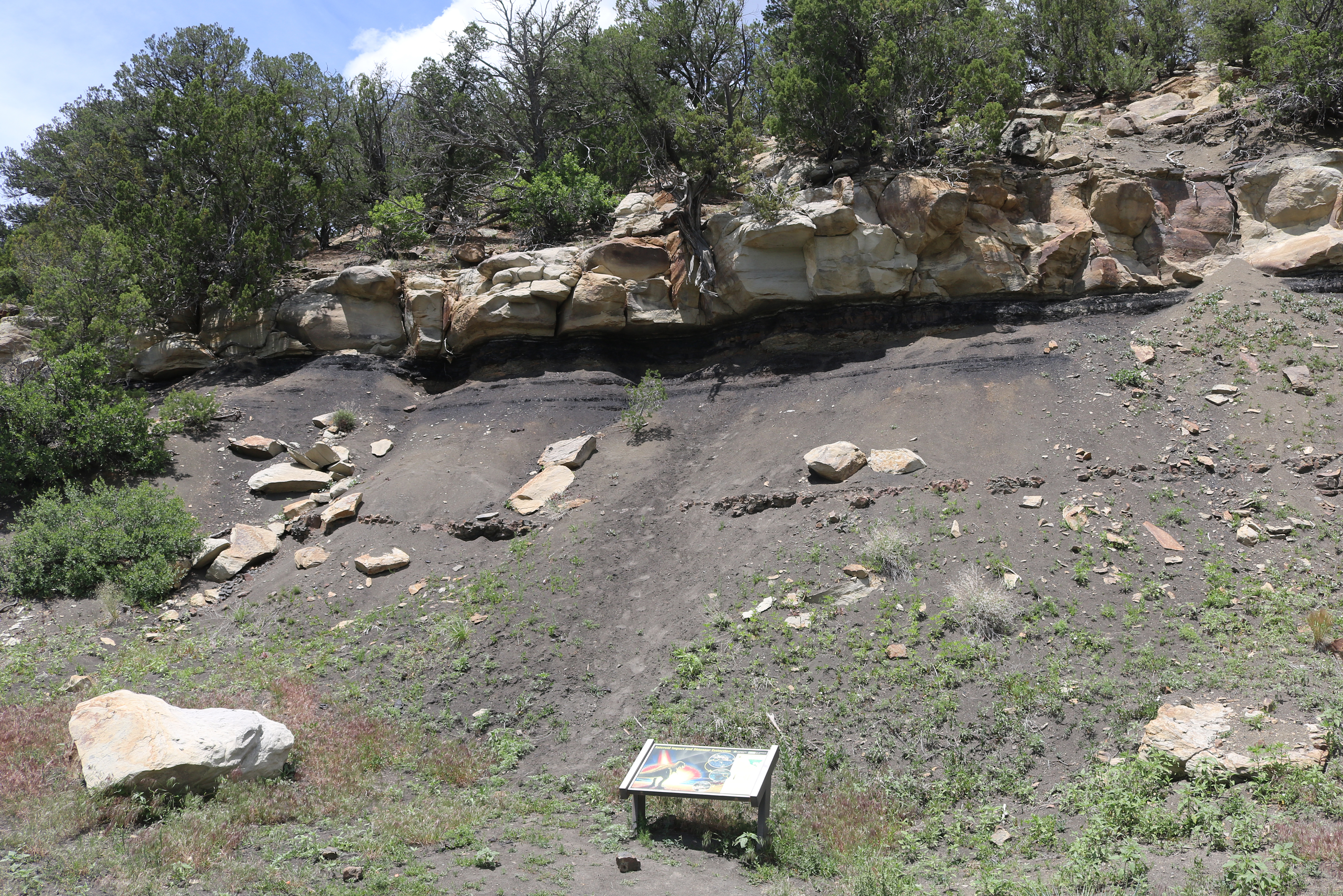 A view of the site of the outcrop of the Cretaceous–Paleogene boundary in Trinidad Lake State Park in Las Animas County, Colorado. The outcrop is located in the Longs Canyon section of the park.